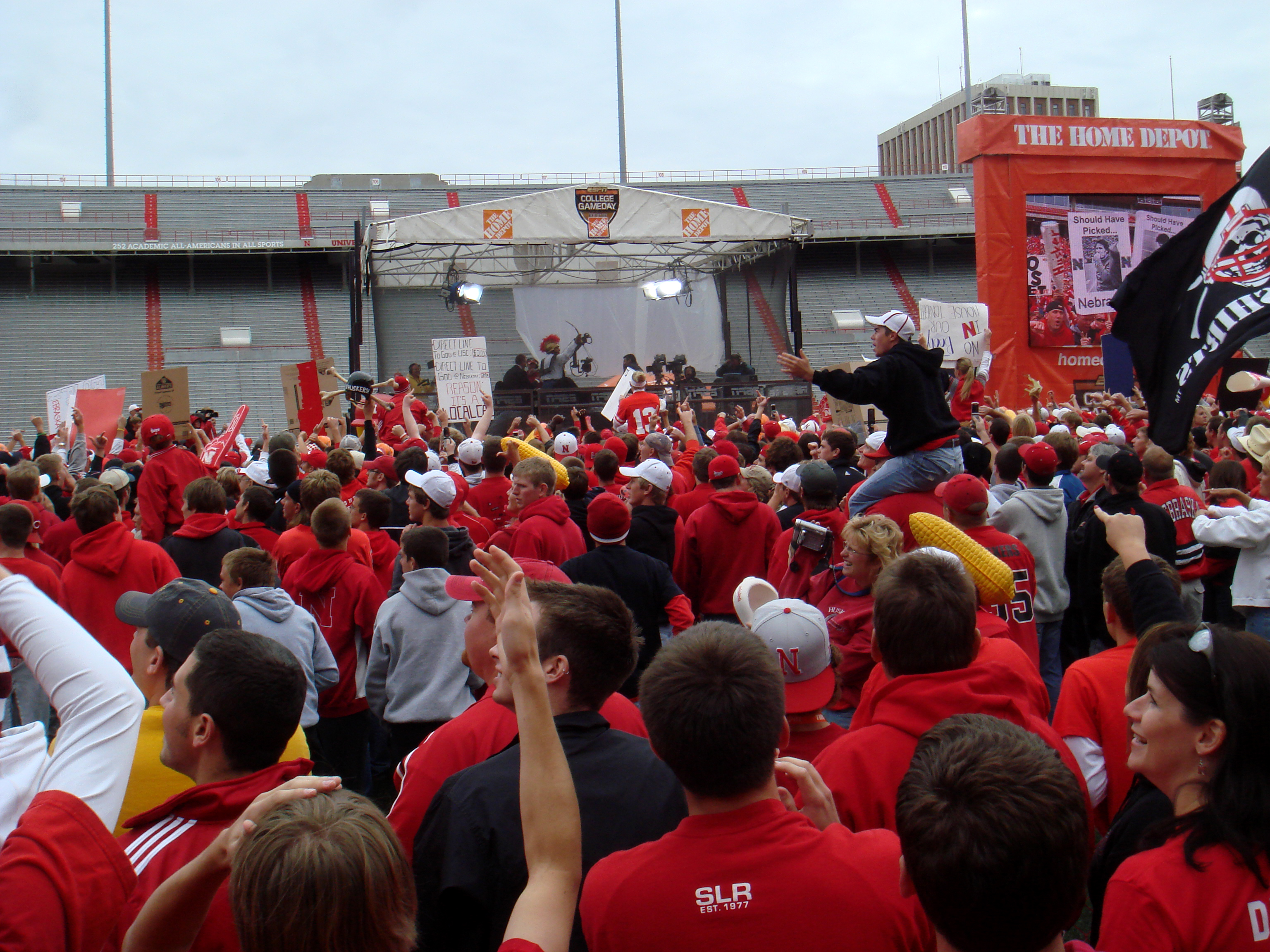 ESPN College GameDay being held in Memorial Stadium in Lincoln, Nebraska: home of the Nebraska Cornhuskers football team. On September 15, 2007 the then-#14 ranked Cornhuskers hosted the #1 ranked USC Trojans in the game of the week. Before 84,949, the Trojans felled the Huskers 49-31. The crowd reacts negatively to Lee Corso's decision to wear Trojan gear, picking USC to win the game.